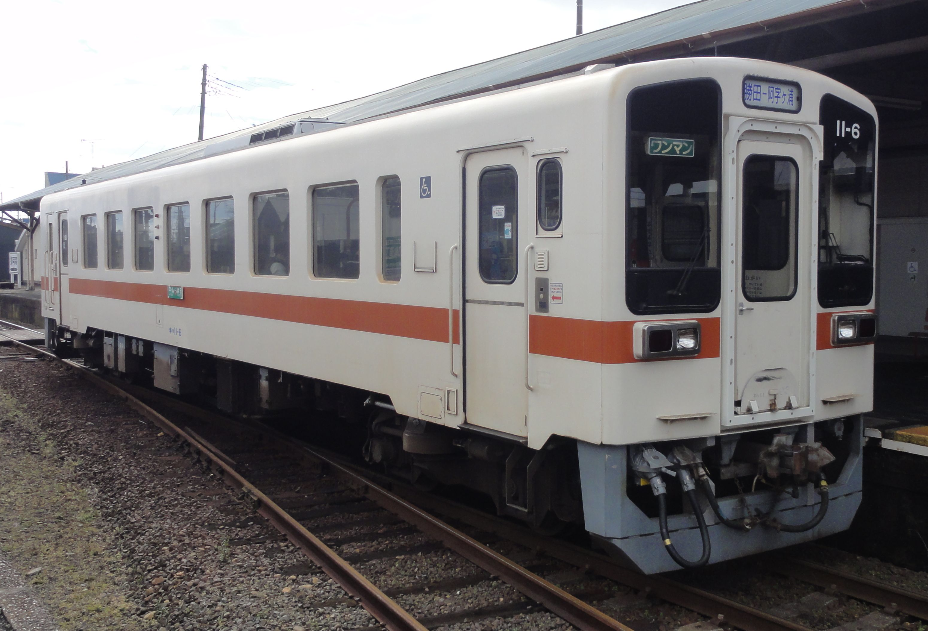 Hitachinaka Seaside Railway KiHa11 diesel car KiHa 11-6 (former Tokai Transport Service KiHa 11-203) at Nakaminato Station